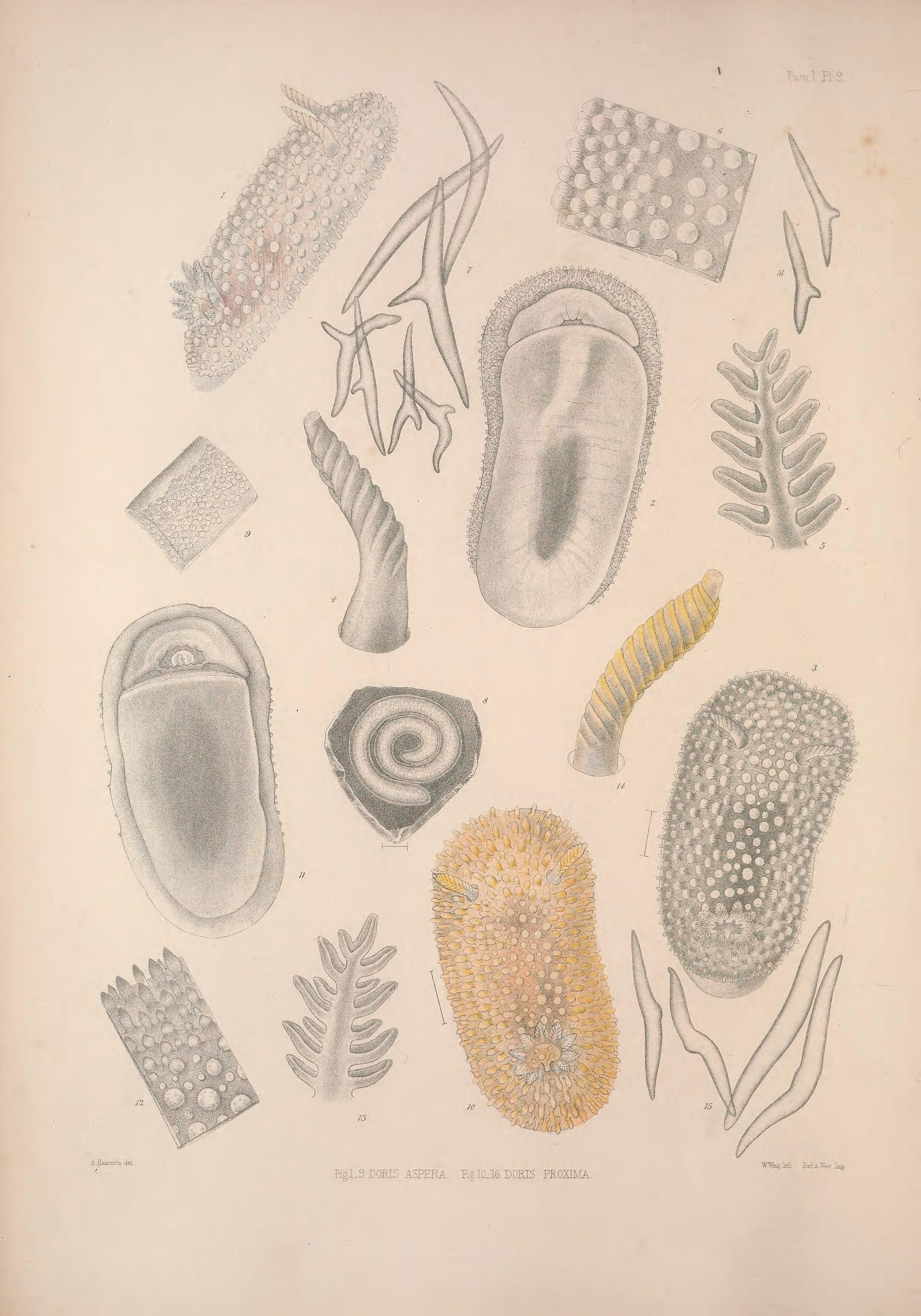 Alder J. & Hancock A. (1845-1855). A monograph of the British nudibranchiate Mollusca: with figures of all the species. The Ray Society, London. Published in 8 parts: Part 6. Fam.1 Plate 9 [1854]. Doris aspera Alder & Hancock, 1842 synonym Onchidoris muricata (O. F. Müller, 1776) valid name Doris proxima (Alder & Hancock, 1854) synonym Adalaria proxima (Alder & Hancock, 1854) valid name